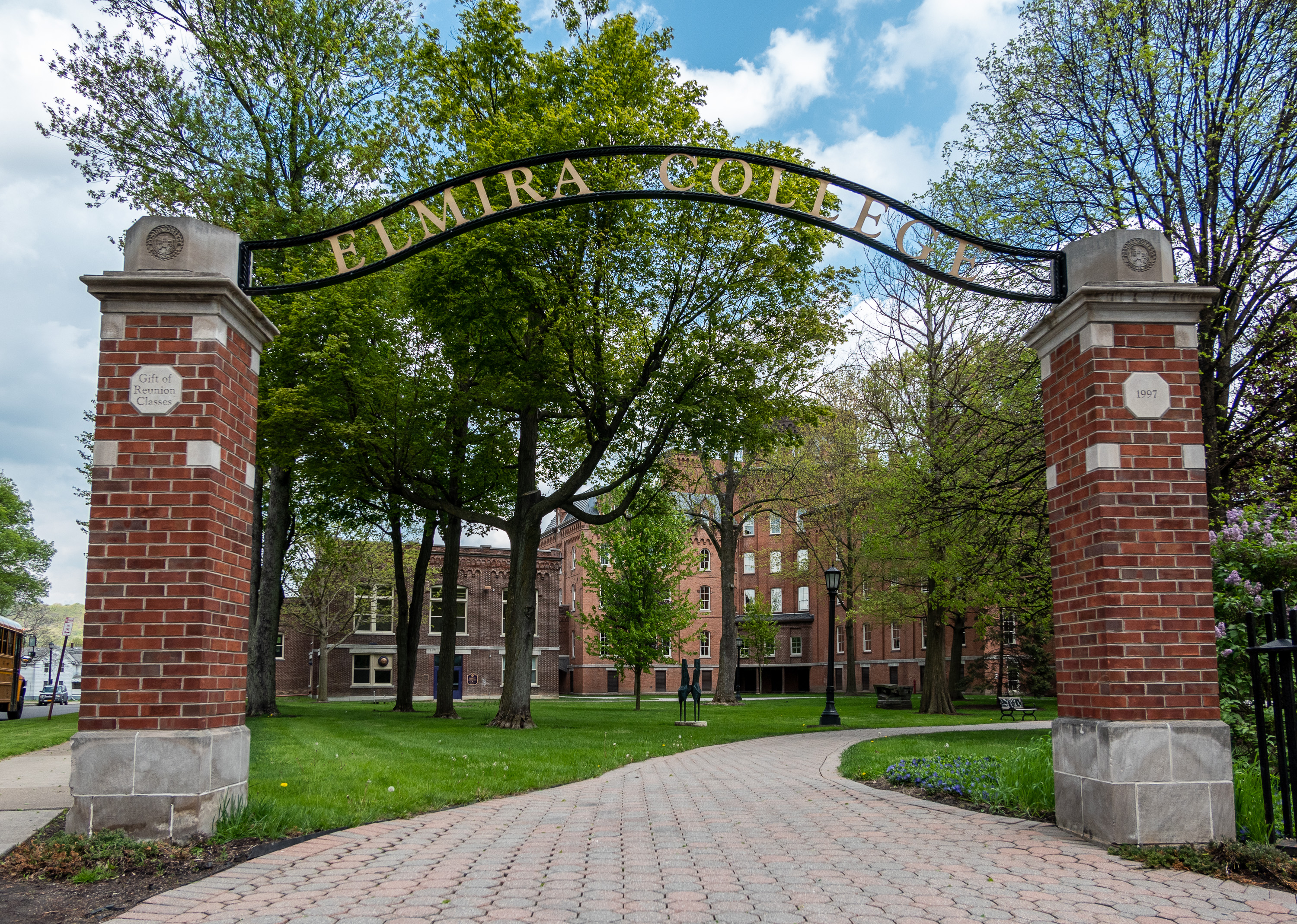 Elmira College entry gate at College and Washington Avenues. Elmira College, Elmira New York